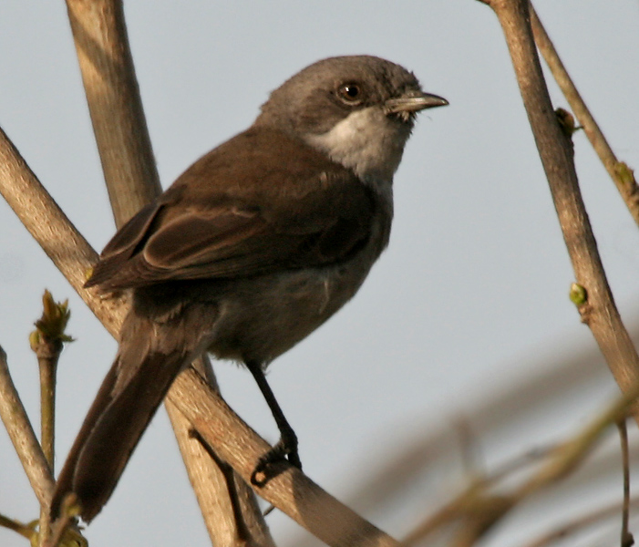 Hume's Whitethroat Sylvia althaea at Hodal, Faridabad, Haryana, India.